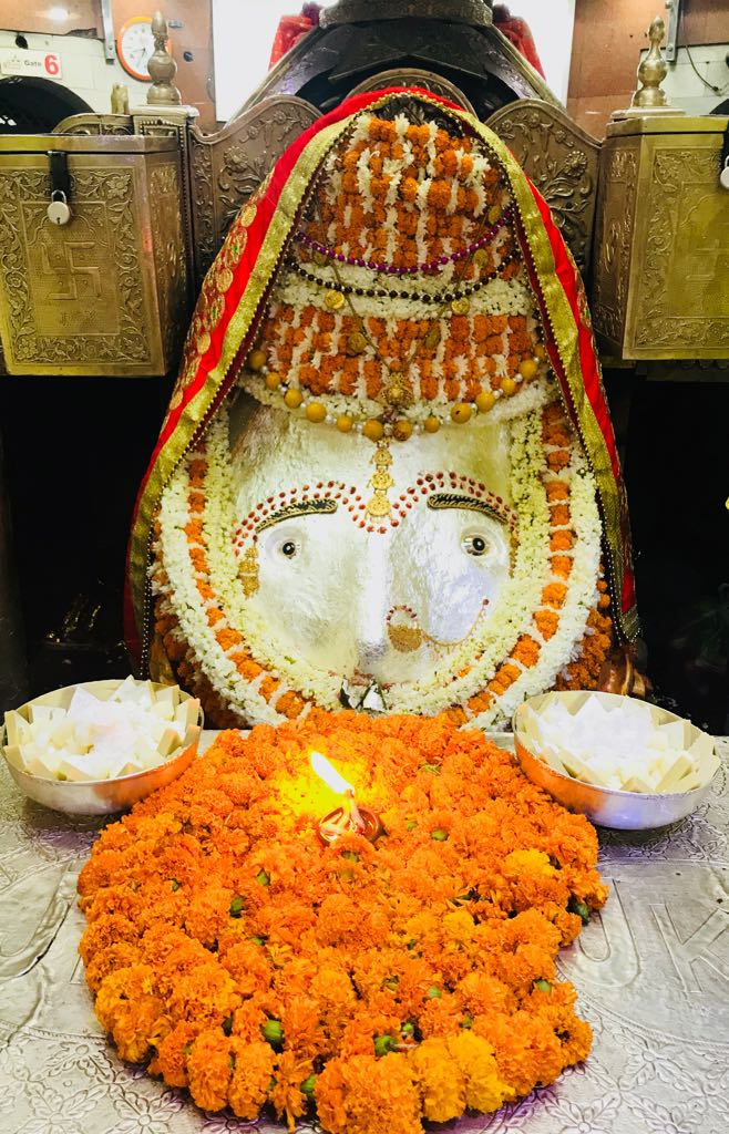 Kalkaji temple, also called Kalkaji temple, is a Hindu temple, which is dedicated to Hindu Goddess Kali. His temple is situated at Kalakaji in Delhi, the southern part of Delhi, India, an area that has taken his name from the temple and is located in front of the Nehru Place Business Center. Temple Kalkaji Temple (Delhi Metro) can be reached by public transport and near the Nehru Place Bus Terminus and Okhla Railway Station. The history of Sri Kalka ji temple is also preceded by the time of the Mahabharata. And with interesting evidence from Bihot exists with proof. Mr. Kalkaji temple two streets to reach I have the closest metro station Okla- II (magenta line) where the side of a Okhla which originates from Botonikl neck of the airport | On the other hand, Nehru Place or Lotus Temple (Lotus \ Baha'i temple side) by way of the nearby subway station Kalkaji temple where is the Kashmiri Gate which Voilet line to Blbgd | There can also come from both sides of the road and there is also the convenience of parking wheel chair. Mother vegetarian object flower garland Kalkaji drink eat as devout offerings, offer love reverence nature | Any time the chief priest and committee temple (during the day at 4 pm to 12 pm) may be contacted for more information